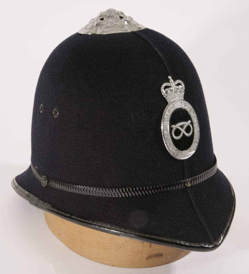 Staffordshire County policeman's helmet, as worn between July 1958 and 1968, in the collection of Staffordshire County Museum.